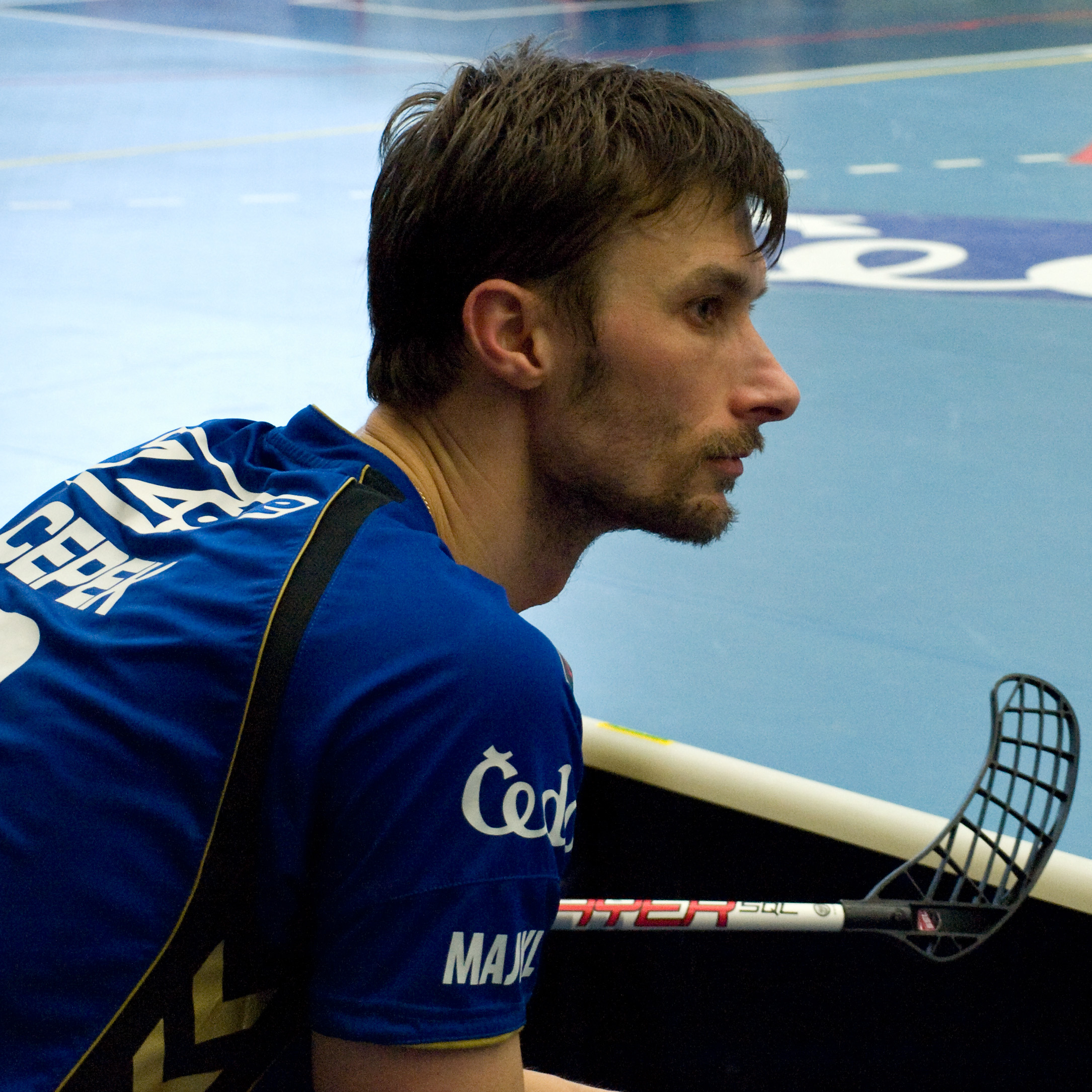 Czech floorball player Radim Cepek